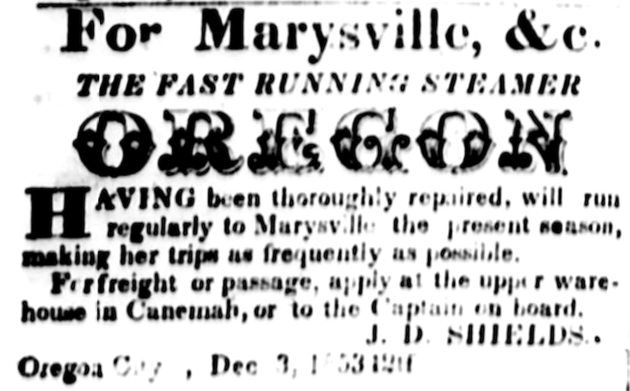 Oregon, advertisement from the Oregon Spectator.